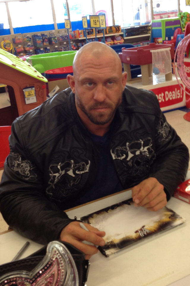 Ryback at a signing session in Nottingham England April 2013